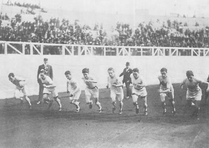 1500 metre athletics final at the 1908 Summer Olympics